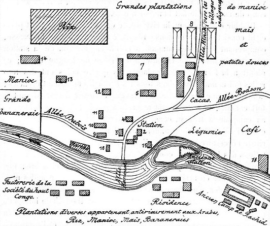 Stanley Falls Station foundations for Kisangani.Collection Pierre VAN BOST